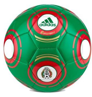 Adidas Terrapass FMF (Federacion Football Mexicana)